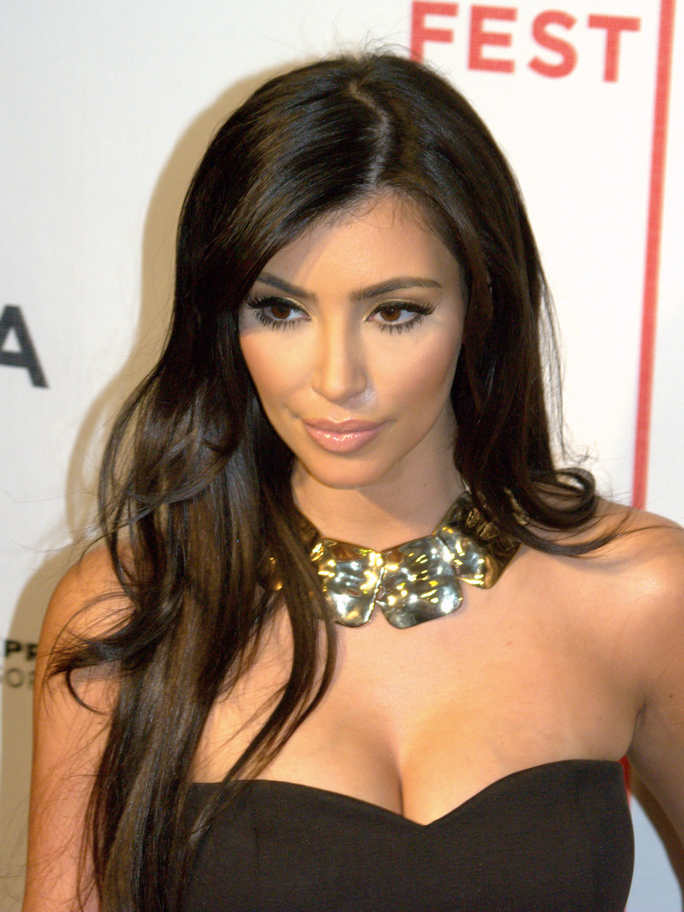 Kim Kardashian at the 2009 Tribeca Film Festival for the premiere of Wonderful World. Photographer's blog post about these photos.